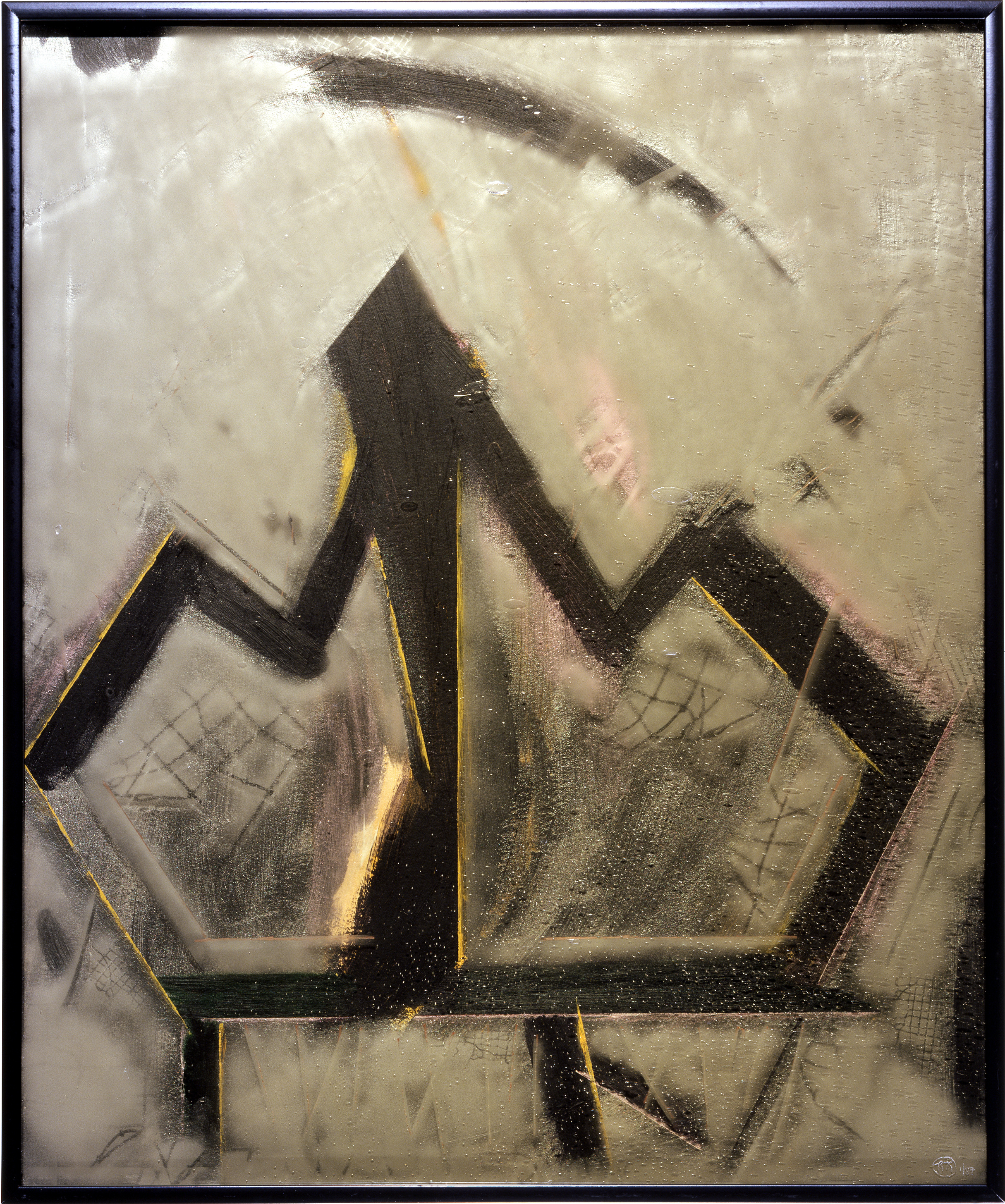 "Siren" — by Robert Kehlmann (1987). Sandblasted hand-blown glass, mixed media on board. Private collection, Forest Hills, NY.